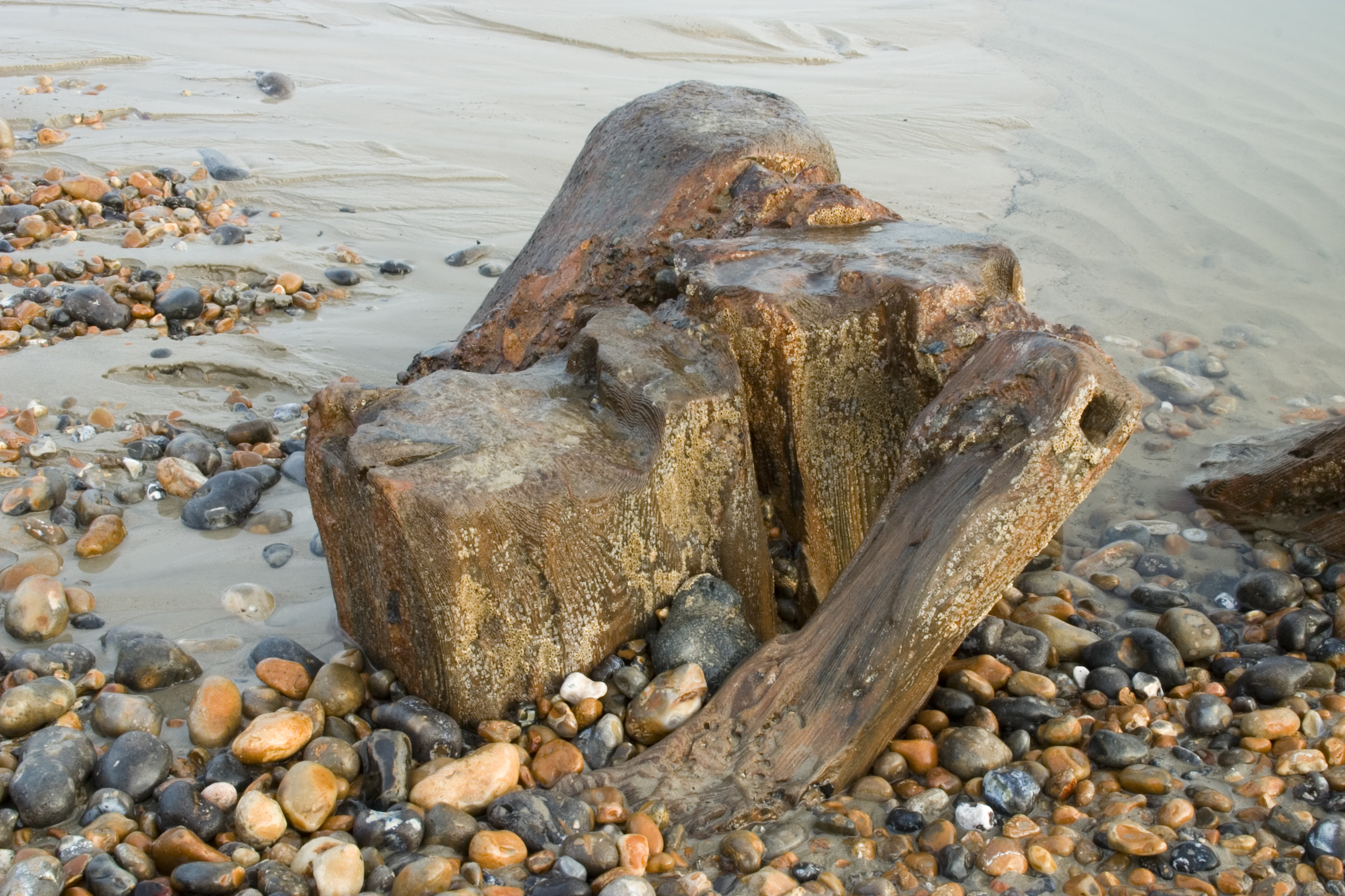 An oak foundation pile of the Royal Suspension Chain Pier Brighton exposed at very low tide. Almost permanently submerged timber tends to slowly petrify in seawater, rather than rot. Venice is built on similar foundations.